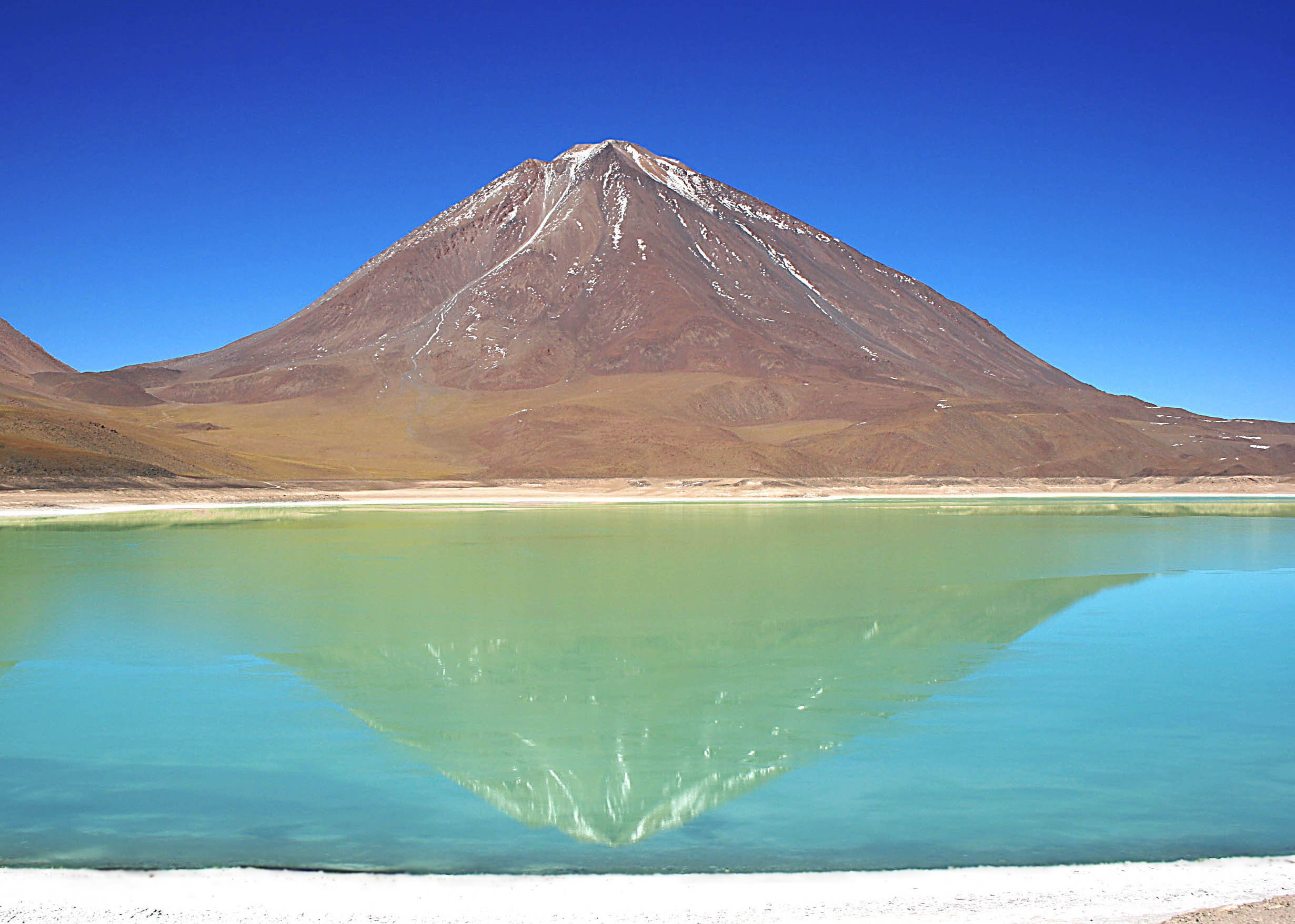 The Licancabur Vulcano and the Green Lake